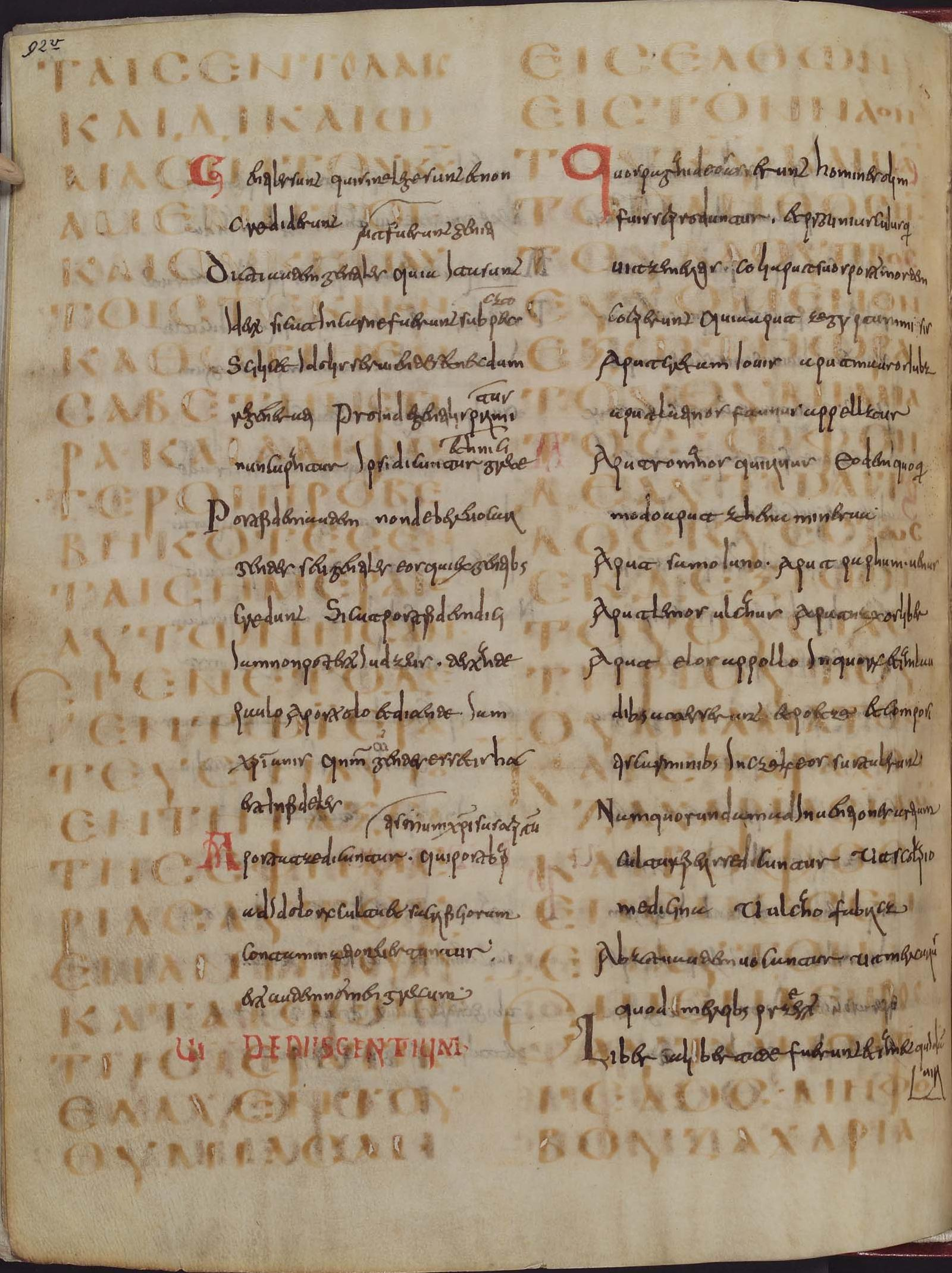 palimpsest, the lower text is from the 6th century (Codex Guelferbytanus 64 Weissenburgensis, folio 92 verso), it contains the text of Luke 1:6-13; the upper text is from the 13th century - Isidore of Seville's "Origines" 8.10.2-8.11.4